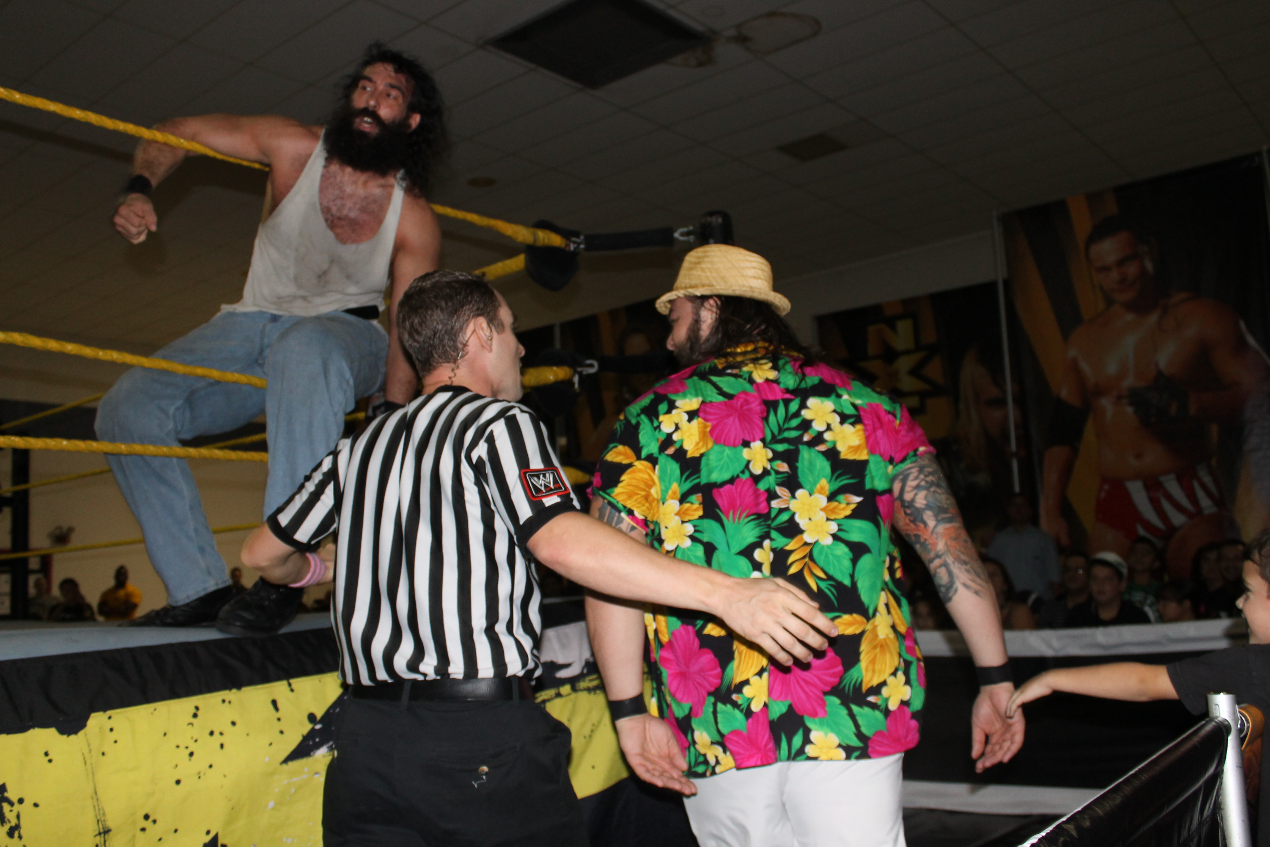 Bray Wyatt and Luke Harper at an NXT event in West Palm Beach, FL in October 2012.